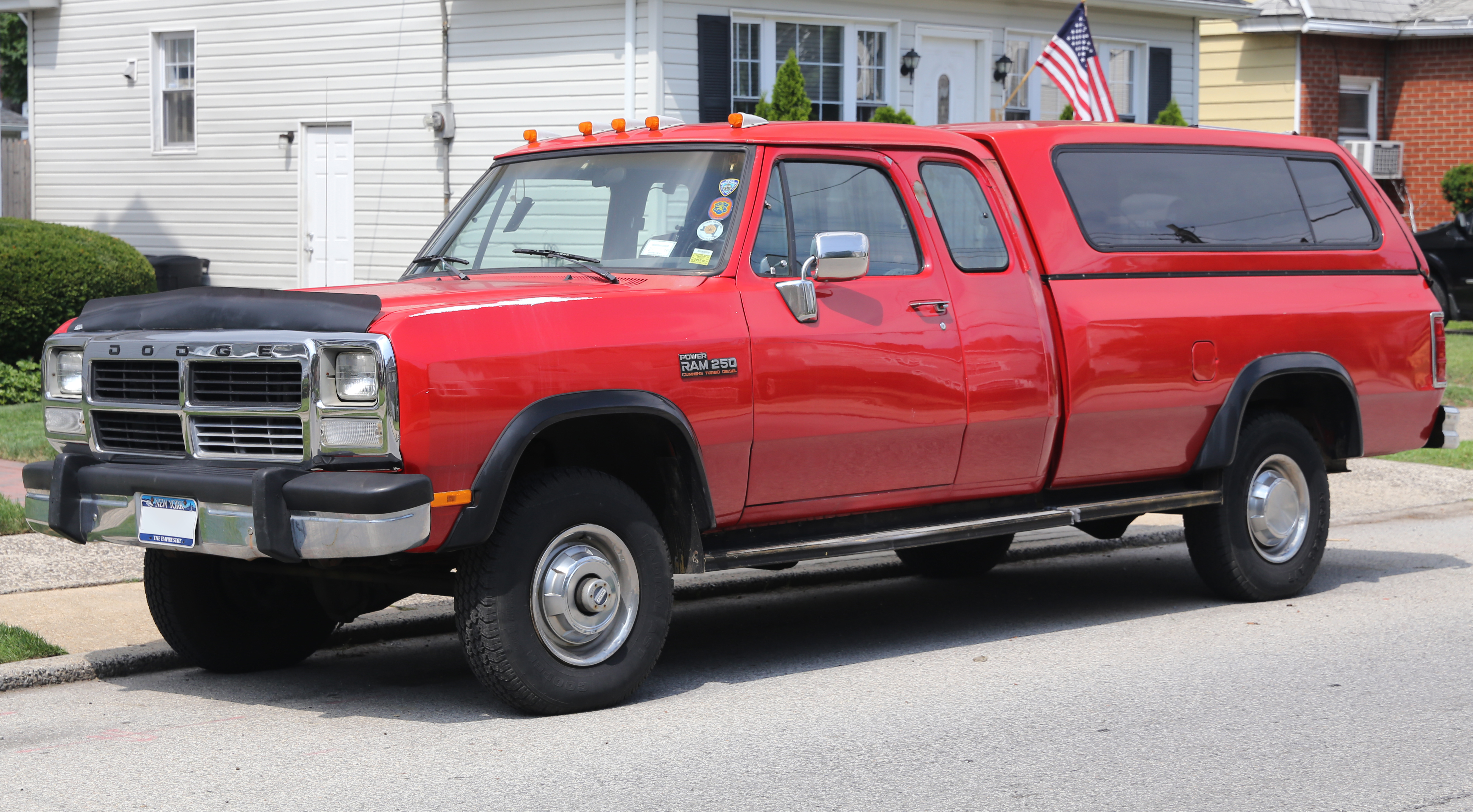 A 1993 Dodge Ram W250 4x4 Club Cab with the Cummins 5.9 litre turbodiesel engine. Rated for 8,000-9,000 lb GVW, this particular car was built in Dodge's Lago Alberto assembly plant in Mexico.